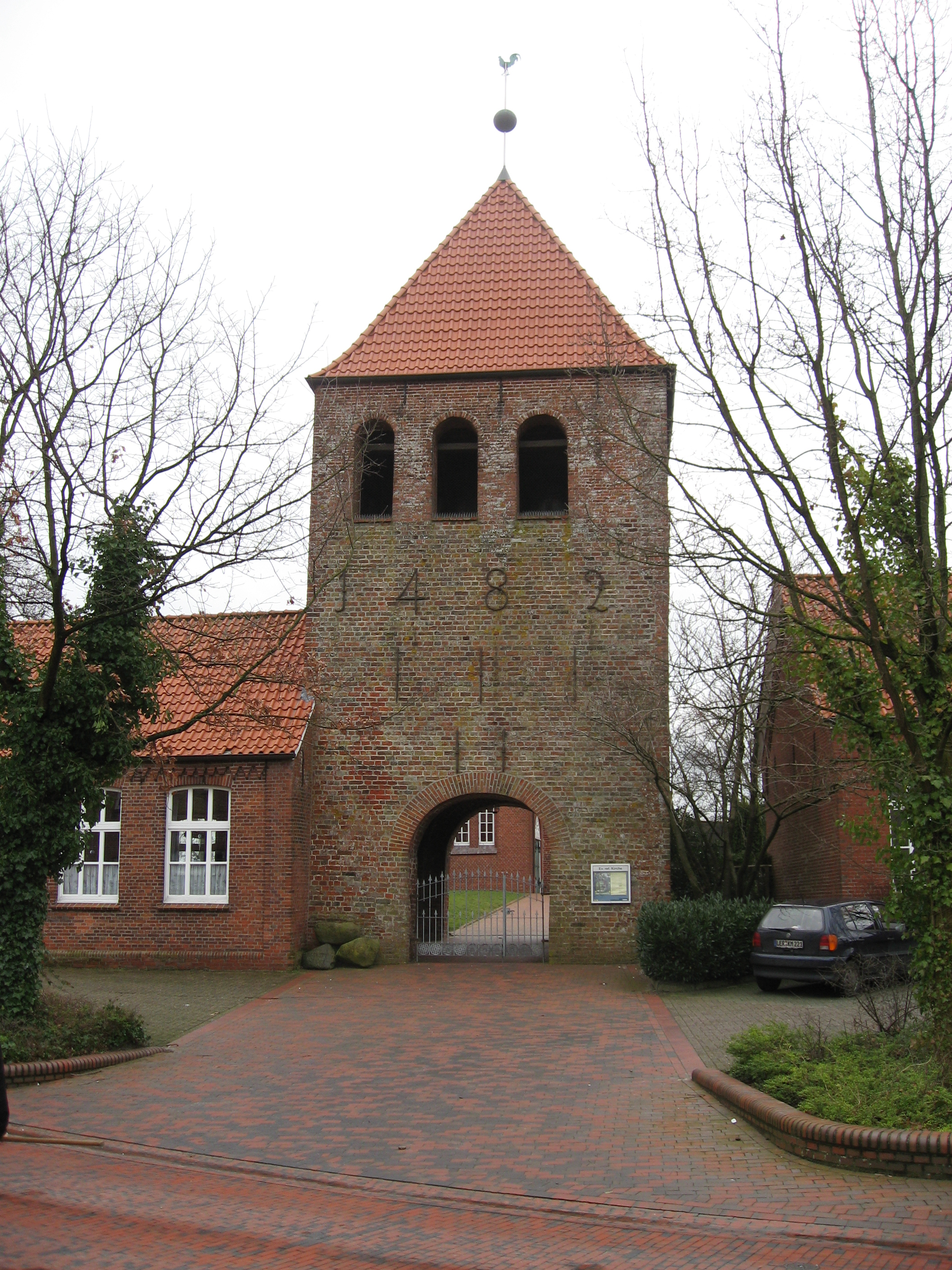 The bell tower of the Evangelical Reformed Church in Ihrhove (a locality of Westoverledingen), Lower Saxony, Germany, is owned and used by a Reformed congregation within the Evangelical Reformed Church – Synod of Reformed Churches in Bavaria and Northwestern Germany.